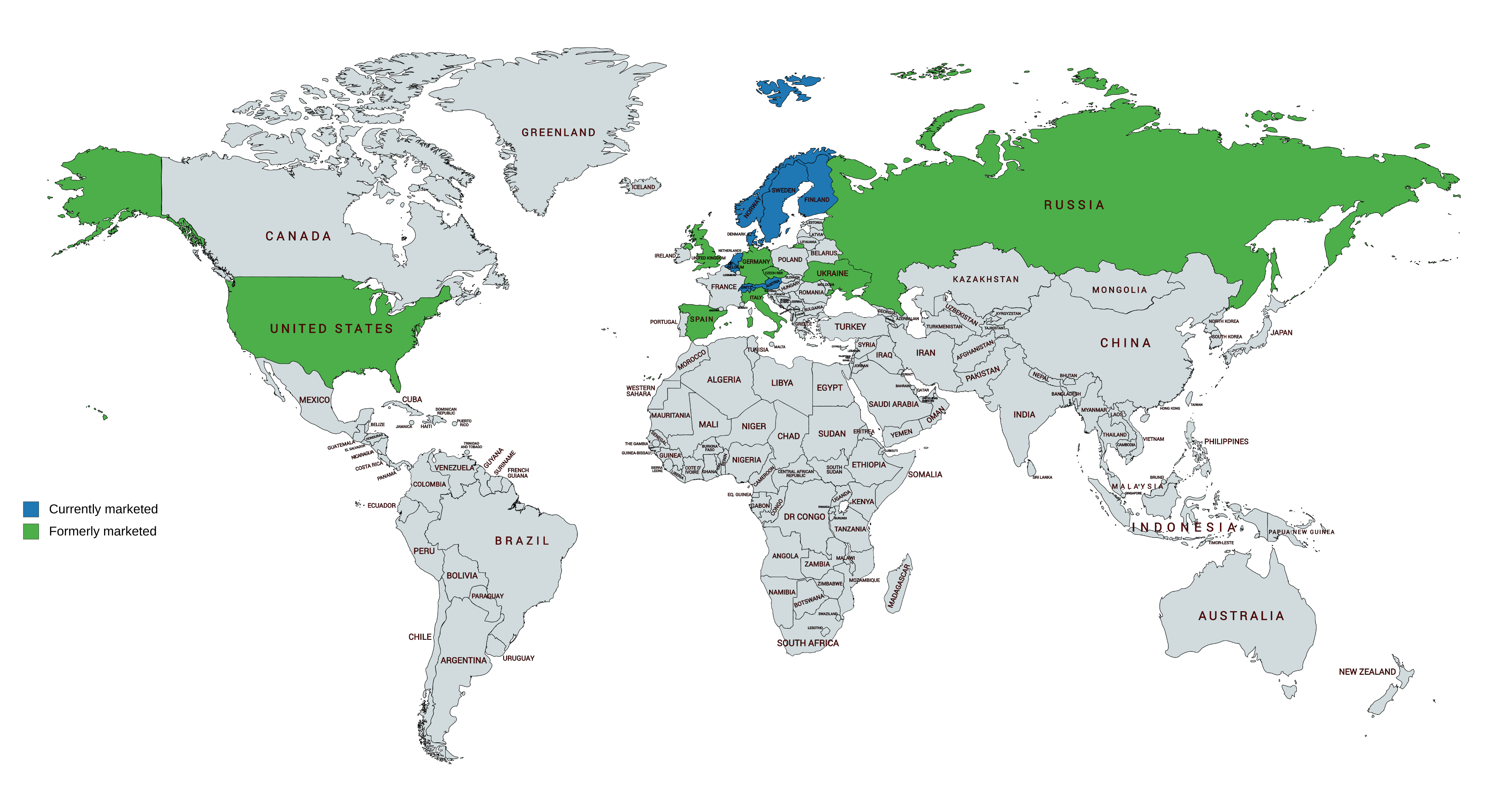 Current and former availability of polyestradiol phosphate as of March 2018.